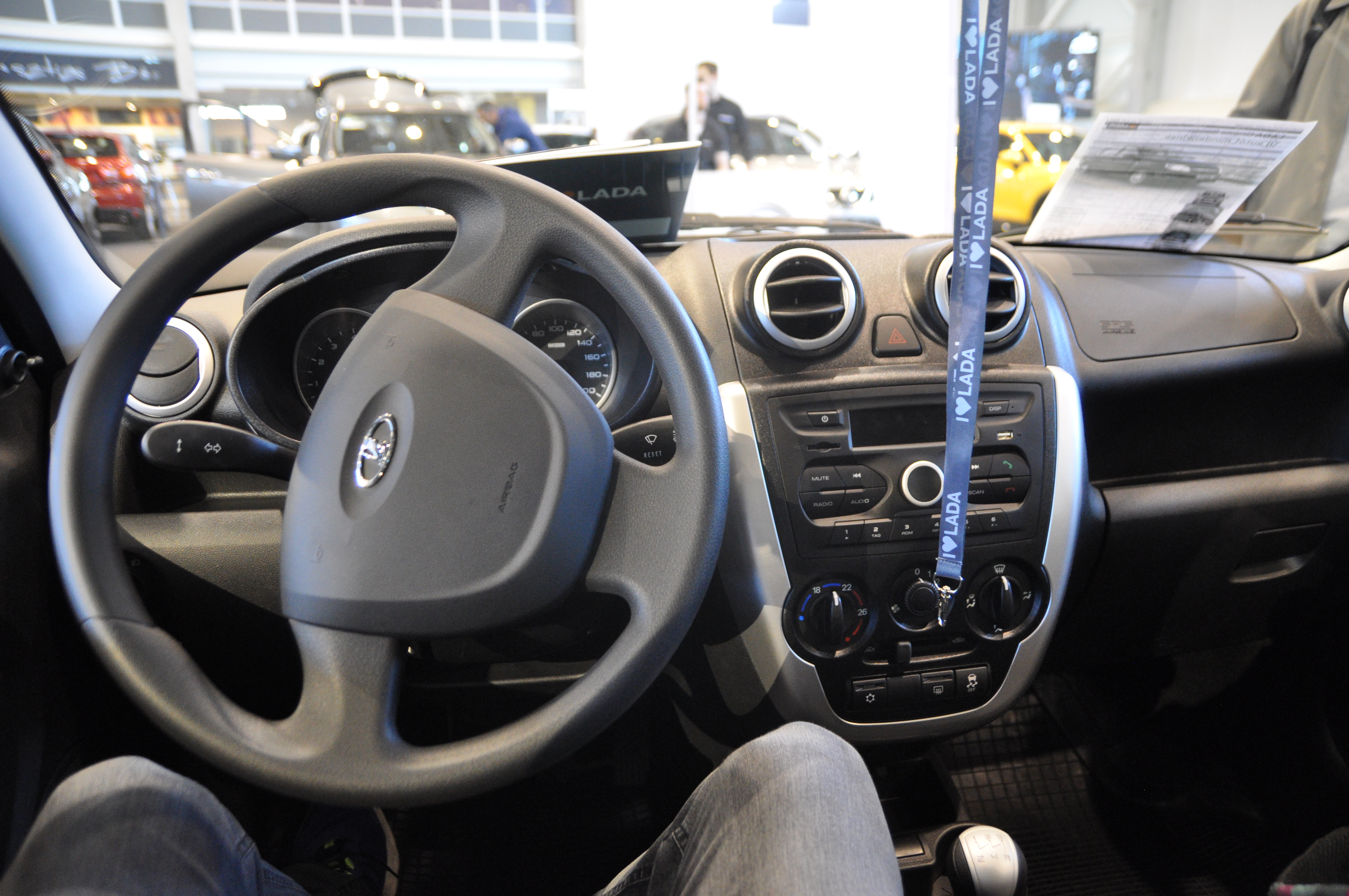 Budapest, Hungexpo, Automobil and Tuning Show 2017